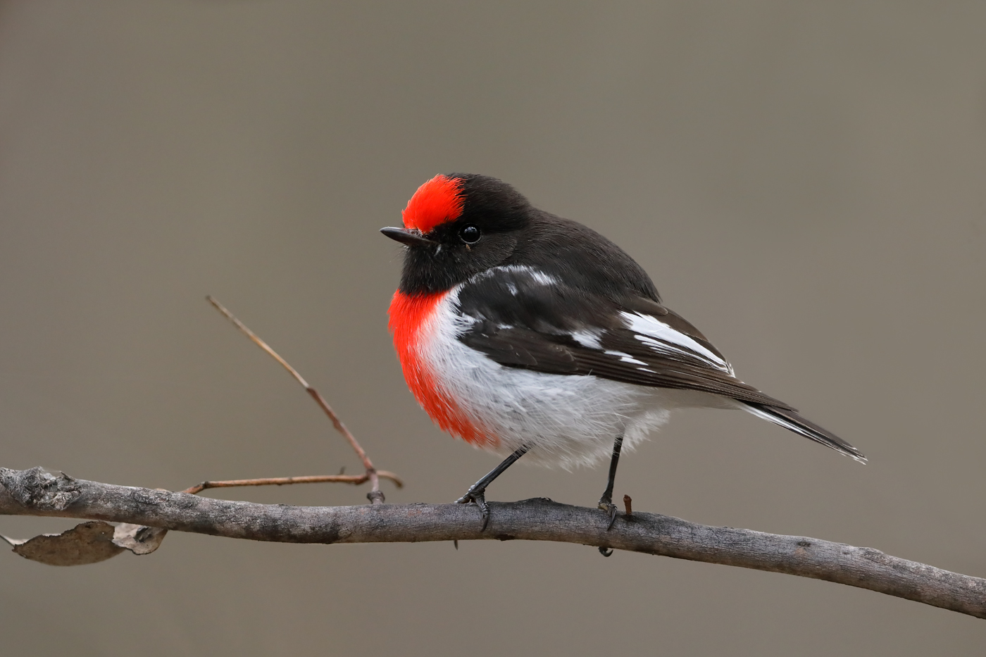 Muckleford Forest, Central Victoria